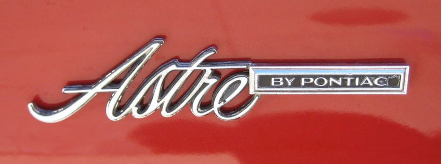 Pontiac Astre emblem